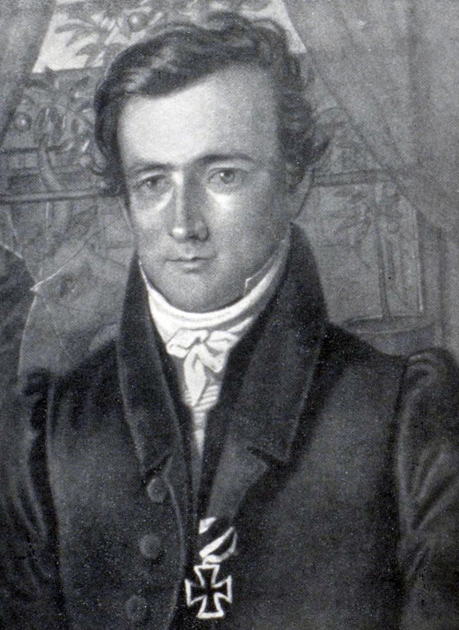 Adolf von Thadden-Trieglaff